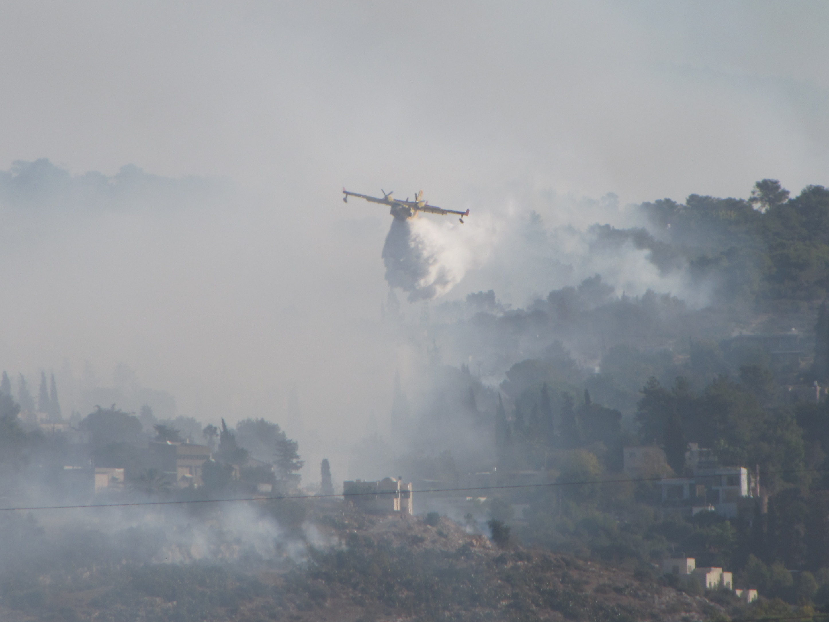 Hellenic Air Force Bombardier 415 while in operation fighting the 2010 Mount Carmel forest fire.